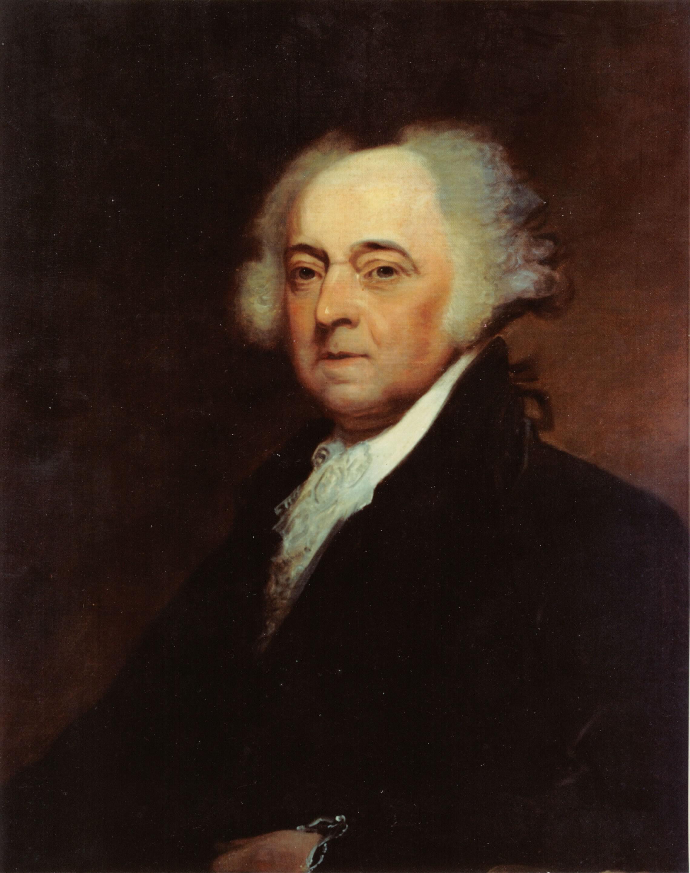 Naval Historical Center, Washington, D.C. -- A painting of President John Adams (1735-1826), 2nd president of the United States, by Asher B. Durand (1767-1845). Every October 30th, the birthday of John Adams, Naval Reserve Center (NRC) Quincy, Mass., conducts a wreath-laying ceremony at First Parish Church. Both Adams and his son President John Quincy Adams are buried at the church. Adams was one of the leading advocates for the creation of a Continental Navy, he drafted the first set of rules and regulations for the new navy. He was able to convince the Congress to pass an “Act Providing a Naval Armament,” which was less than he thought was necessary but at least provided for the equipping of three frigates, the Constitution, the United States, and the Constellation. U.S. Navy photo. (RELEASED)